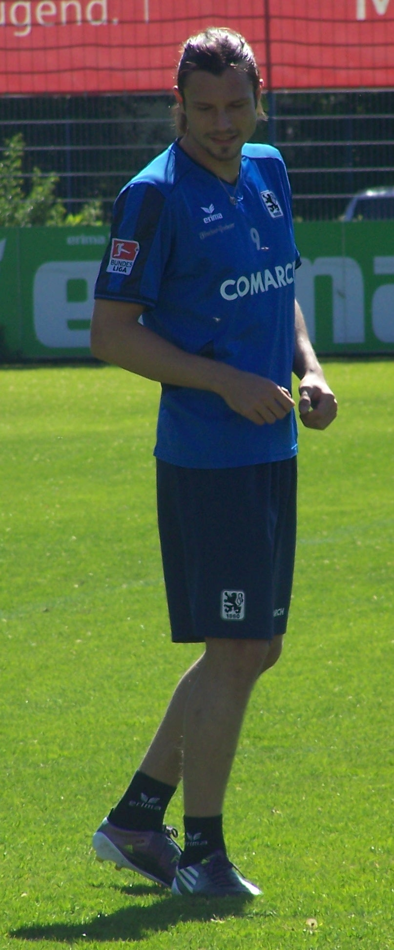 Djordje Rakic, 1860 München, training